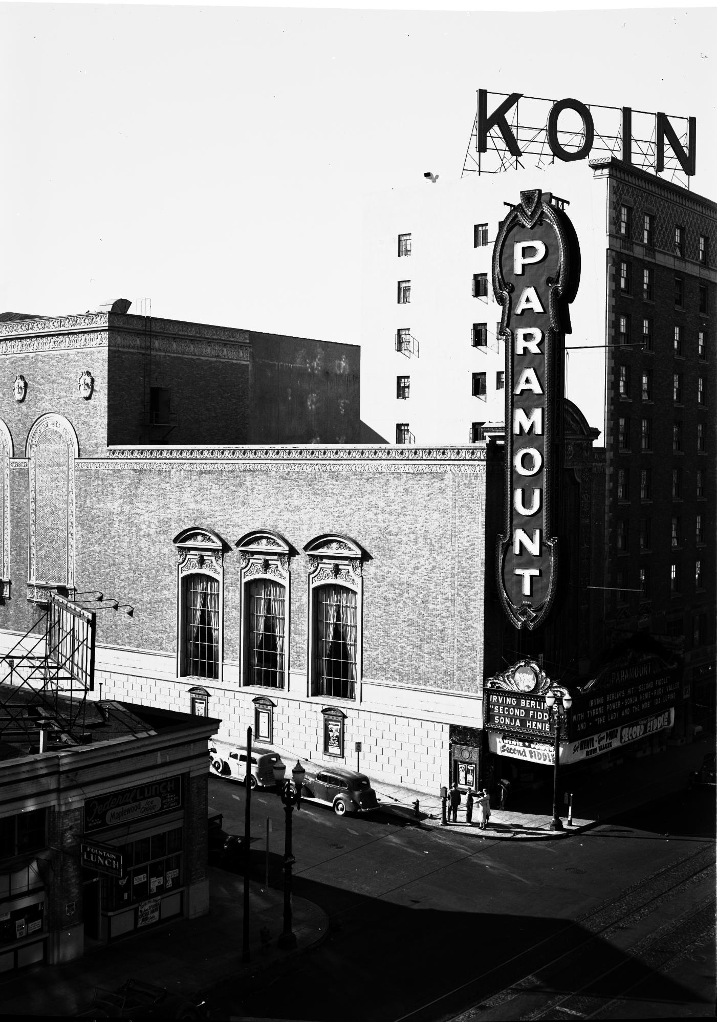 Paramount Theatre. 1037 SW Broadway, Portland, Oregon. August 5, 1939. Billboard advertises Irving Berlin's Second Fiddle, starring Sonja Henie, Tyrone Power, and Rudee Valley, and The Lady and The Mob with Ida Lupino. The Paramount later became the Arlene Schnitzer Concert Hall. The Paramount sign was replaced with a Portland sign in 1984. The KOIN sign sits atop the Heathman Hotel. This image was a film test. It was probably taken out of the window of Room 445 in the Federal Courthouse (later Gus Solomon), where the Bureau of Entomology and Plant Quarantine staff were located. Photo by: Robert L. Furniss Date: August 5, 1939 Credit: USDA Forest Service, Pacific Northwest Region, State and Private Forestry, Forest Health Protection. Collection: Portland Station Collection; La Grande, Oregon. Image: PS-420 To learn more about this photo collection see: Wickman, B.E., Torgersen, T.R. and Furniss, M.M. 2002. Photographic images and history of forest insect investigations on the Pacific Slope, 1903-1953. Part 2. Oregon and Washington. American Entomologist, 48(3), p. 178-185. Image provided by USDA Forest Service, Pacific Northwest Region, State and Private Forestry, Forest Health Protection